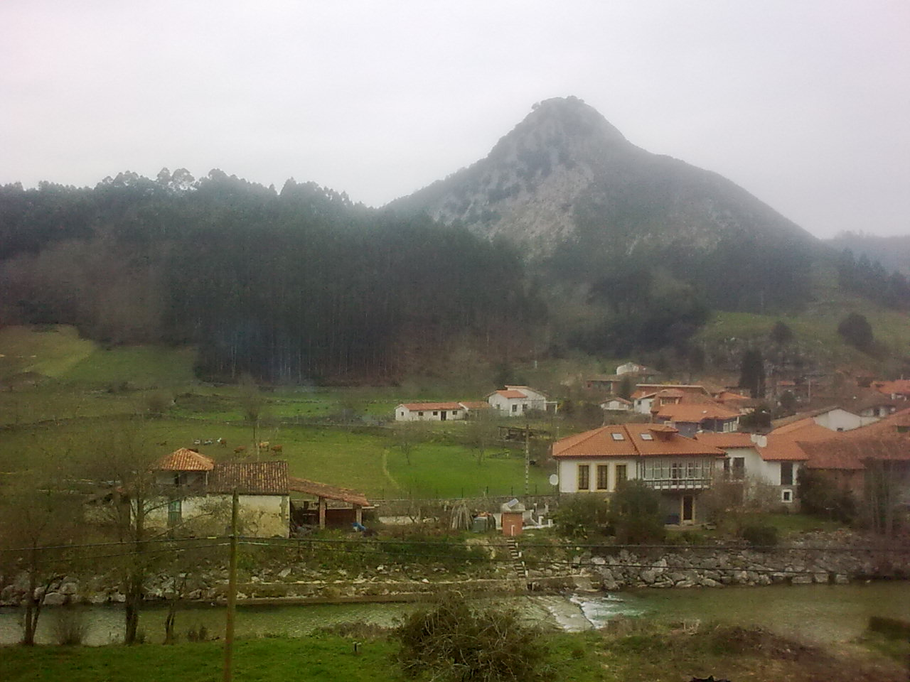 El pueblo está protegido por varias montañas, como el Pico Castillo.